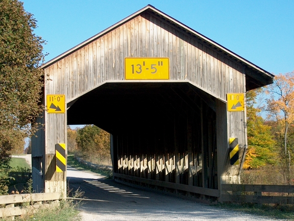 A photograph of Caine Road Covered Bridge, located in Ashtabula County, Ohio.